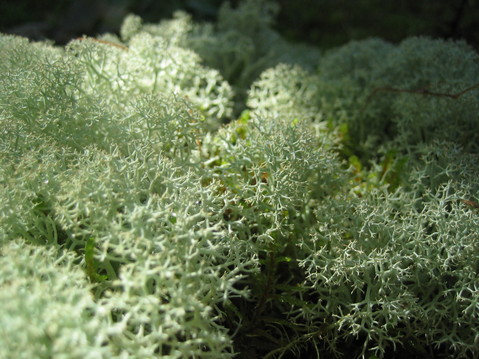 genus Cladonia, probably (Cladonia stellaris). Geographic Location taken: Latitude 47 N; Longitude 91 W.